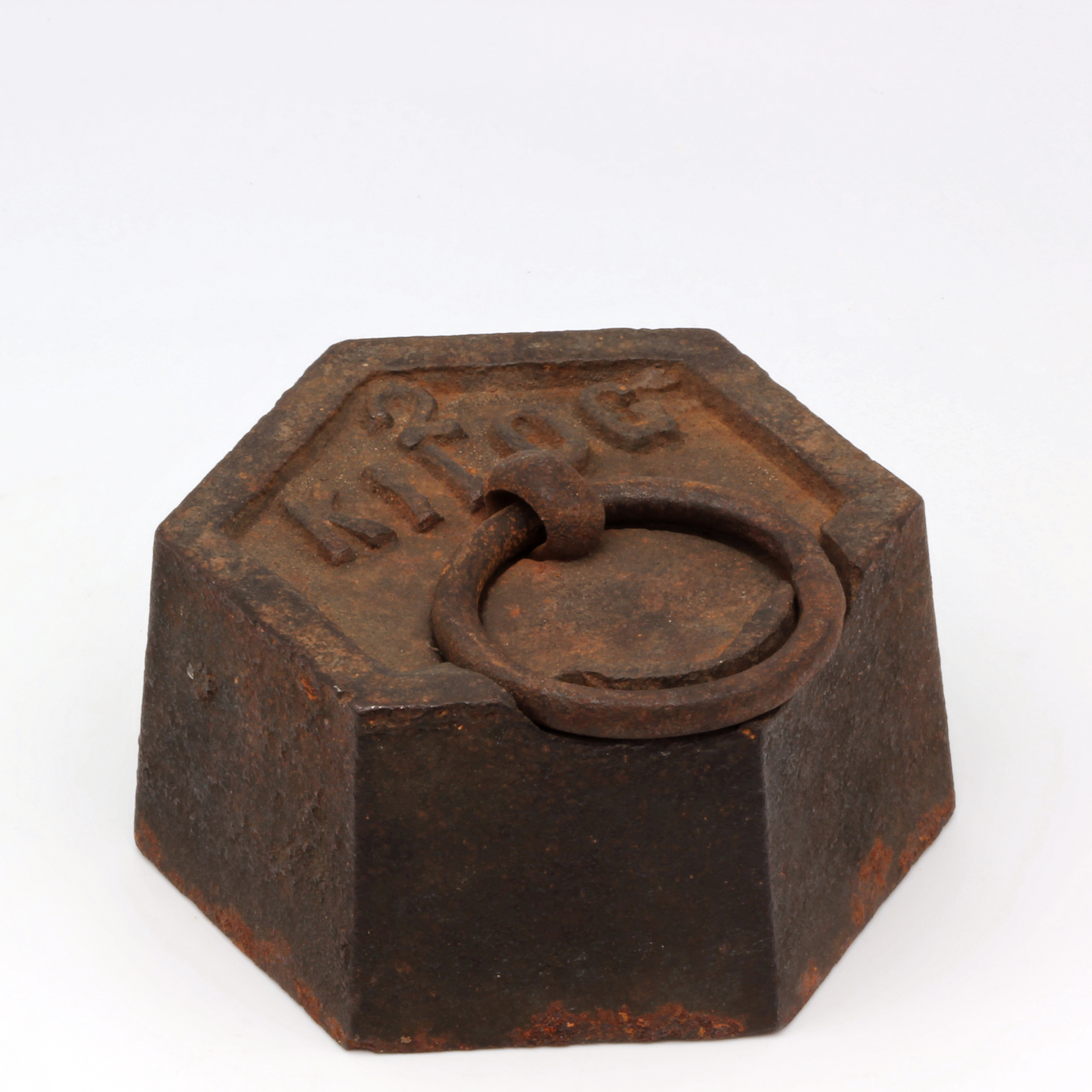 Weight for balances